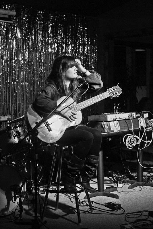 Cortney Tidwell performing live at The Stone Fox, Nashville, TN.